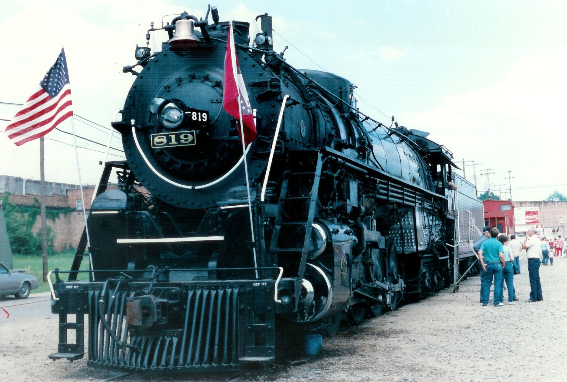 Engine #819 attends the Fordyce on the Cotton Belt Festival (1986). Photo by Bill B. Bailey